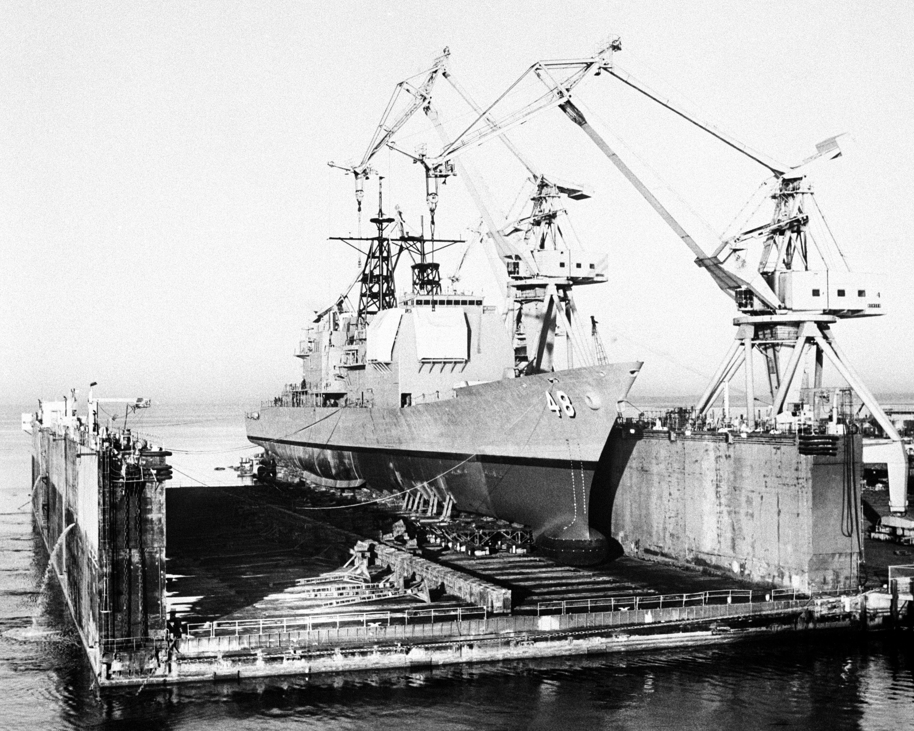 A starboard quarter view of the Aegis guided missile cruiser USS Yorktown (CG-48) prior to launching at Ingalls Shipbuilding, Pascagoula, Mississippi.